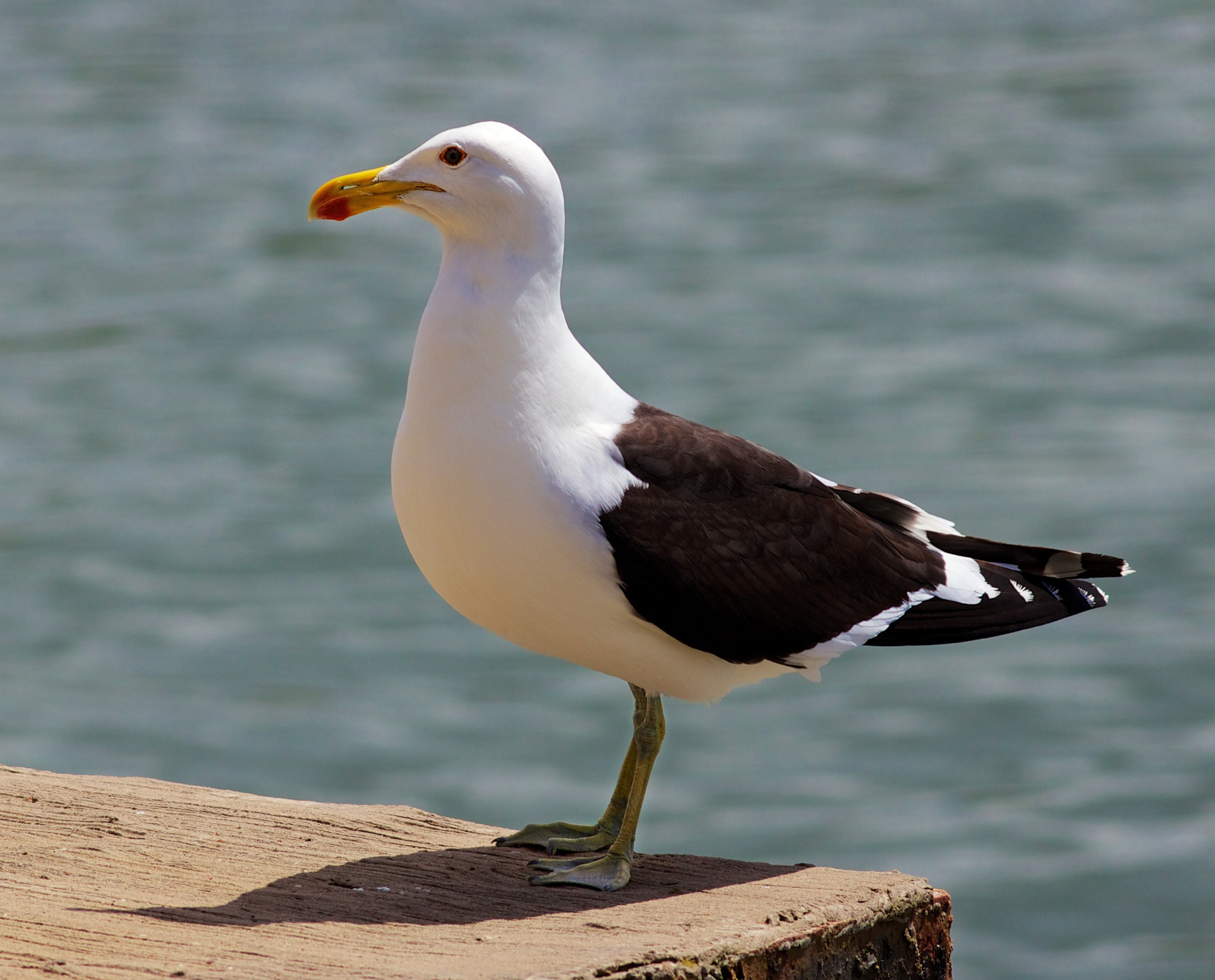 An adult Kelp Gull in Kenton-on-sea, Eastern Cape, South Africa.